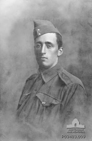 Studio portrait of (180) Private Joseph Allen Cordner (1890–April 1915), 6th Battalion, First AIF, taken in 1914, and supplied by his family to the Australian Red Cross Wounded and Missing Enquiry Bureau. After year's investigation it was officially announced that he had been killed in action on 25 April 1915 (shot after being separated from his Battalion at Cape Helles). He is commemorated on the Lone Pine Memorial, Gallipoli Peninsula.